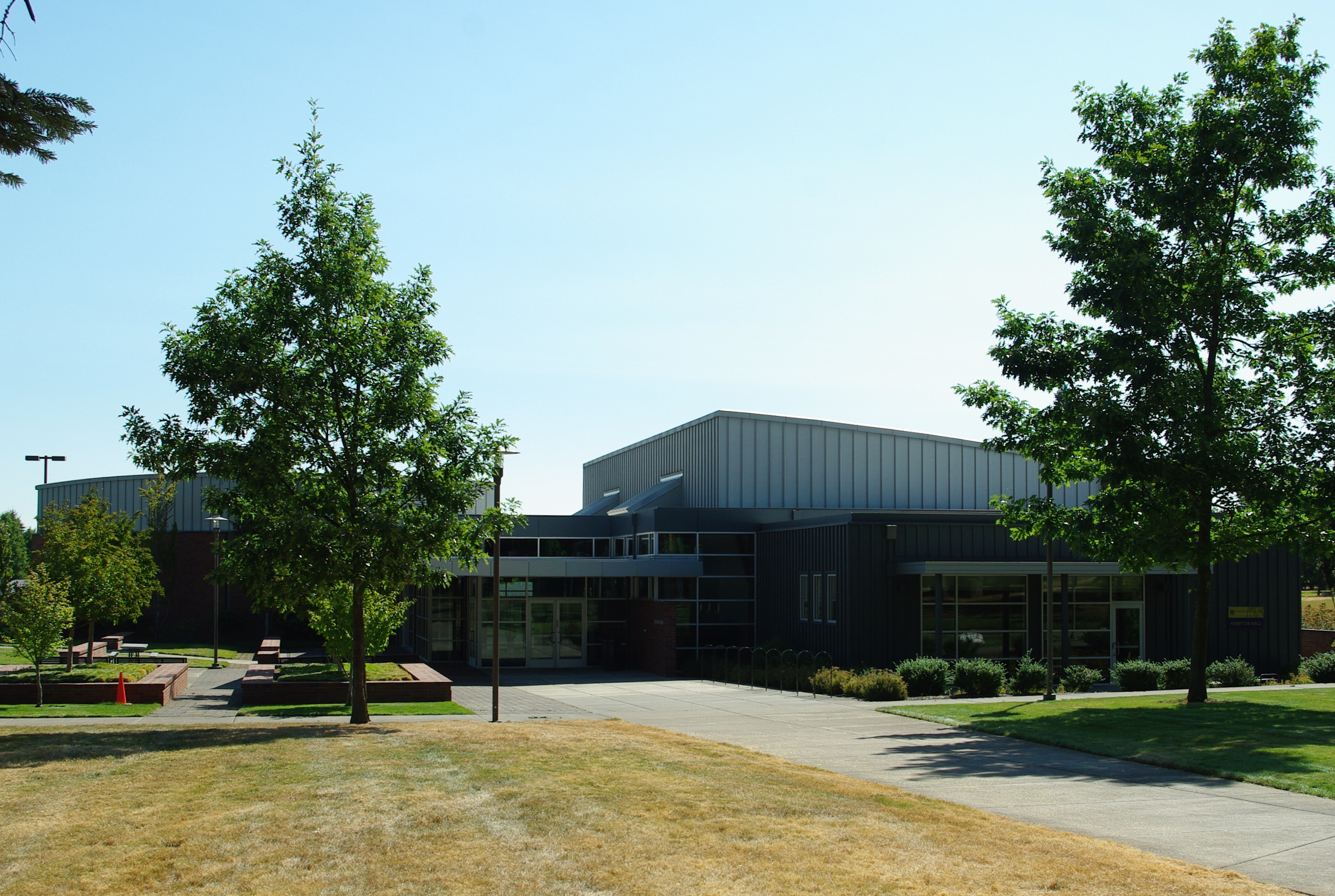 Newer building at the University of Western States in Northeast Portland, Oregon.